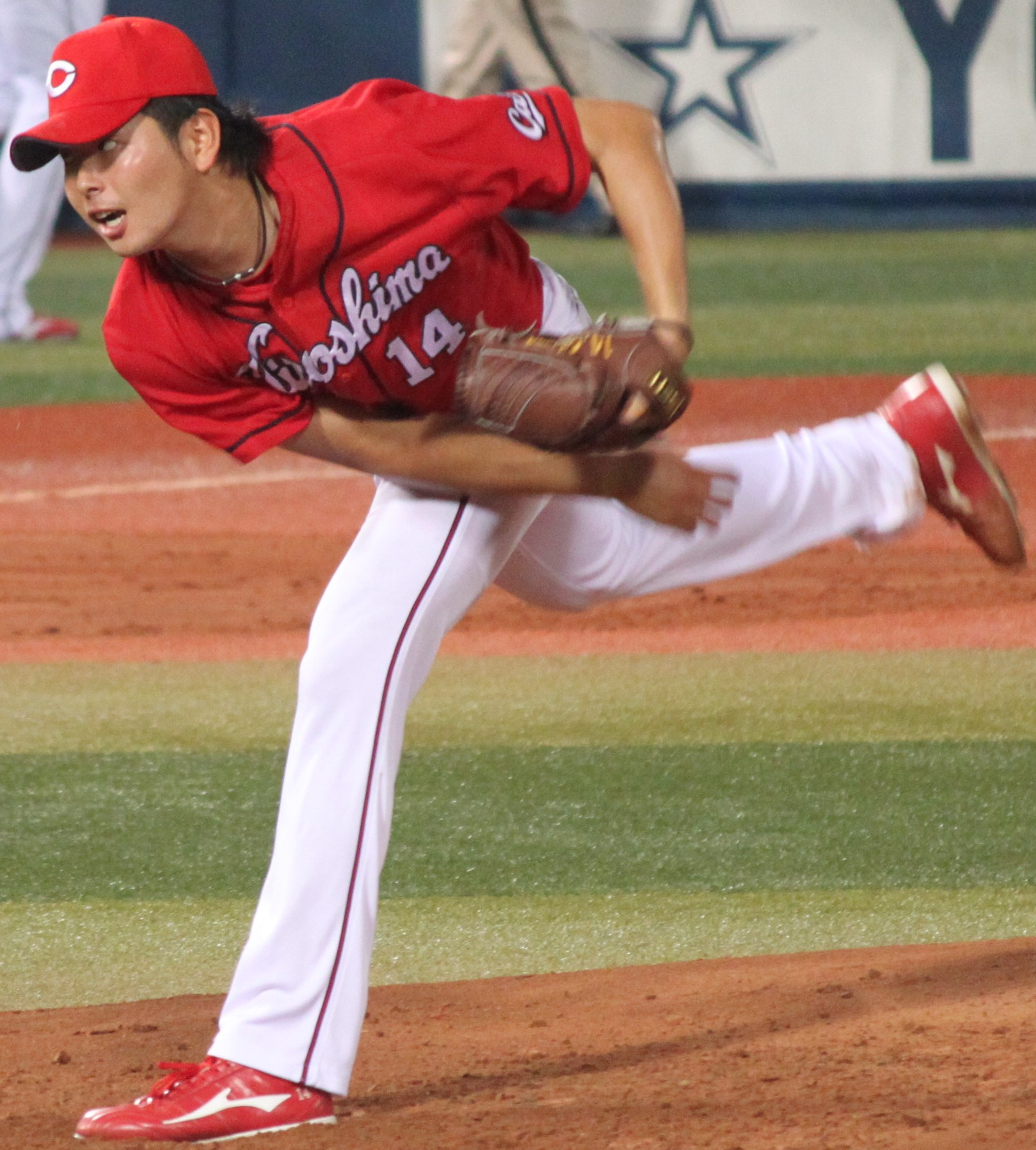 Daichi Ohsera, pitcher of the Hiroshima Toyo Carp, at Yokohama Stadium.